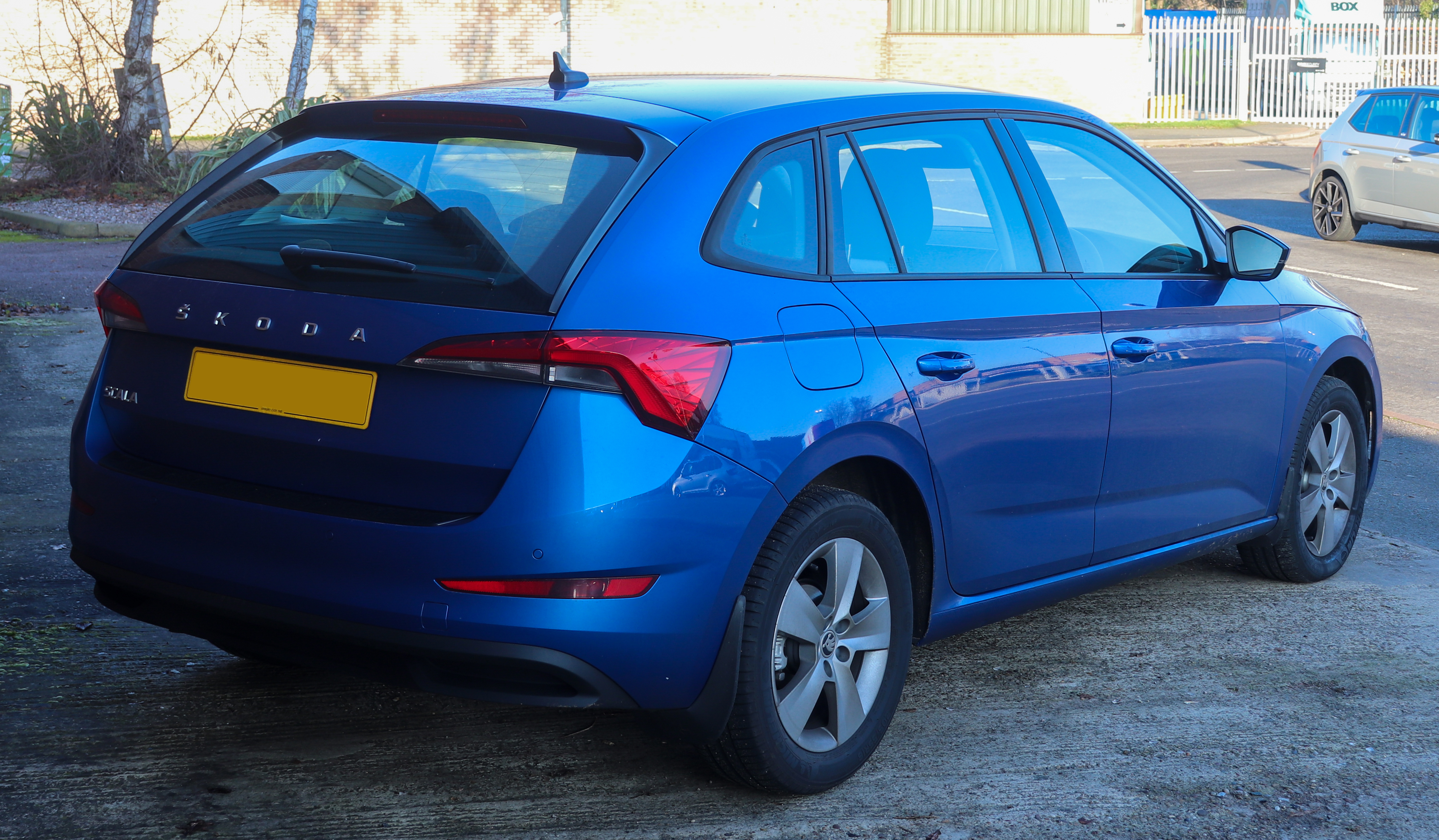 2019 Skoda Scala SE TDi 1.6 Rear Taken in Sydenam, Leamington Spa